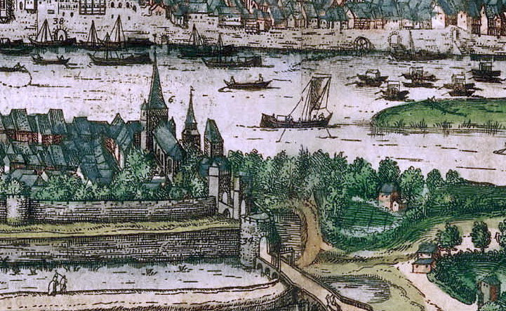 View of the river Meuse and the area around Sint-Maartenspoort (St Martin's Gate) in Wyck-Maastricht, the Netherlands, around 1570. City panorama by Simon de Bellomonte, c 1570, published in 1575 in Part 2 of Braun & Hogenberg's atlas of world cities Civitates orbis terrarum.